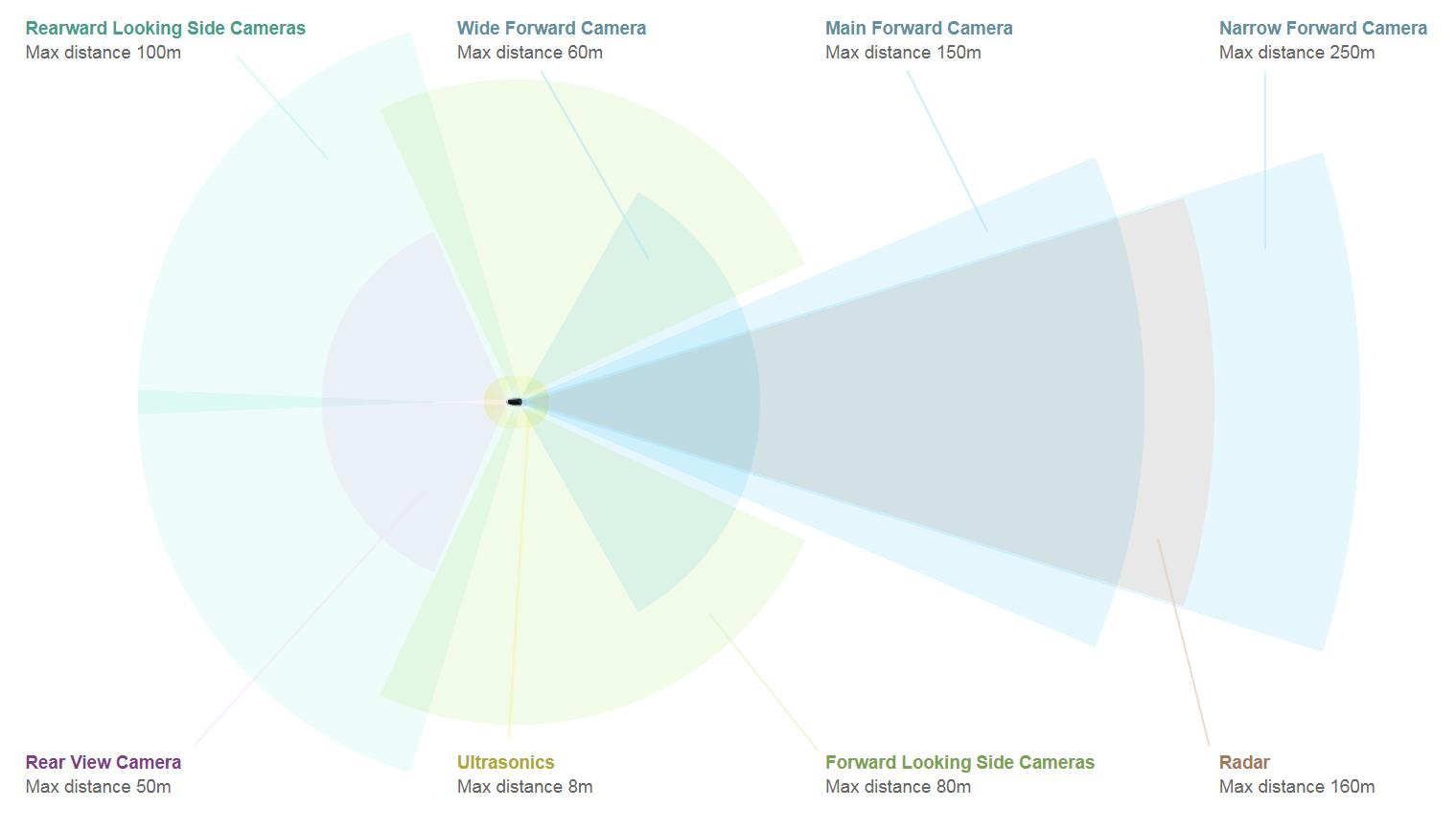 Tesla AP2 hardware as shown by the company's website.